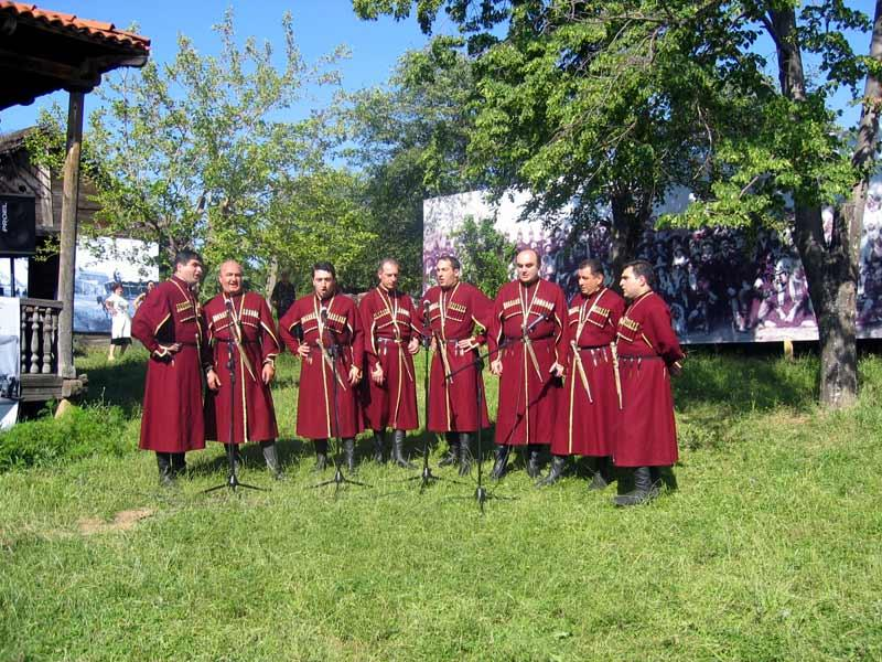 The Rustavi Choir performs Gurian songs.